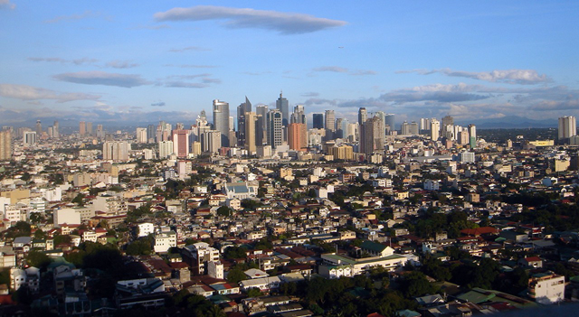 A view of Makati skyline and its surroundings from Vito Cruz Tower 1 in Manila, Philippines.